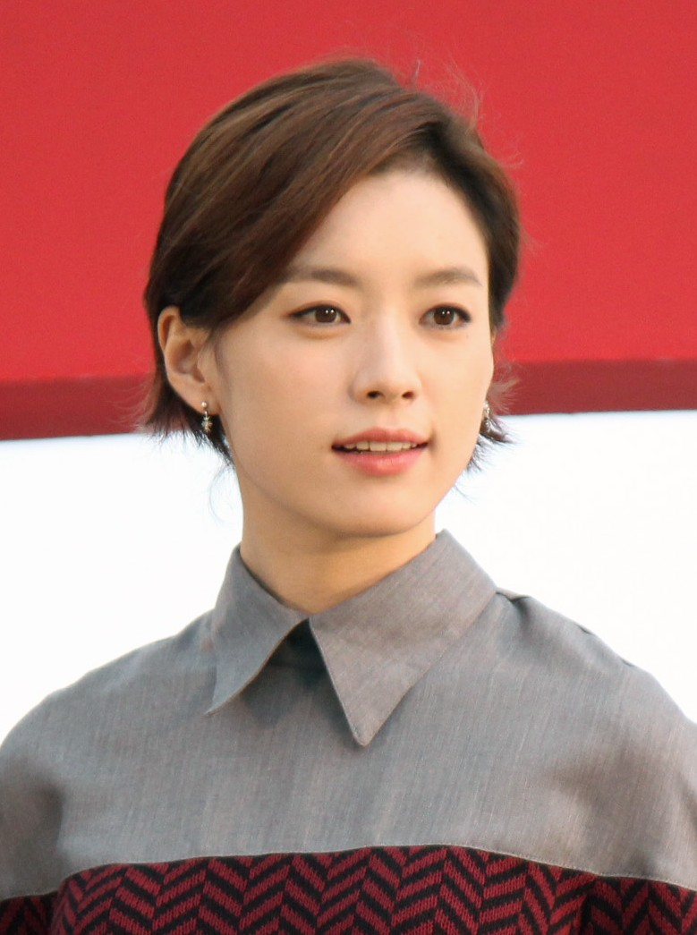 Han Hyo-joo at BIFF 2013